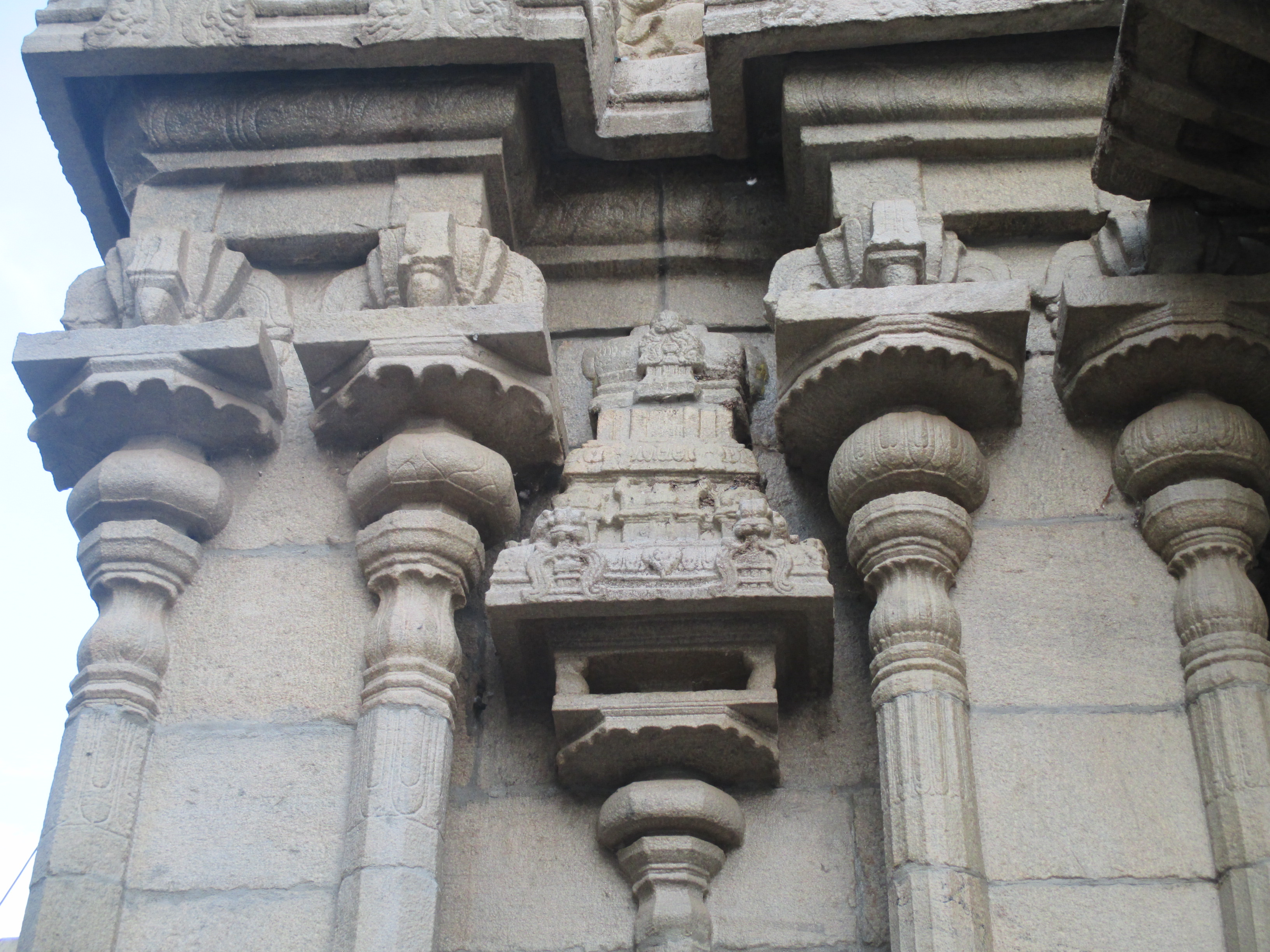 Soundararaja Perumal Temple, Thadikombu